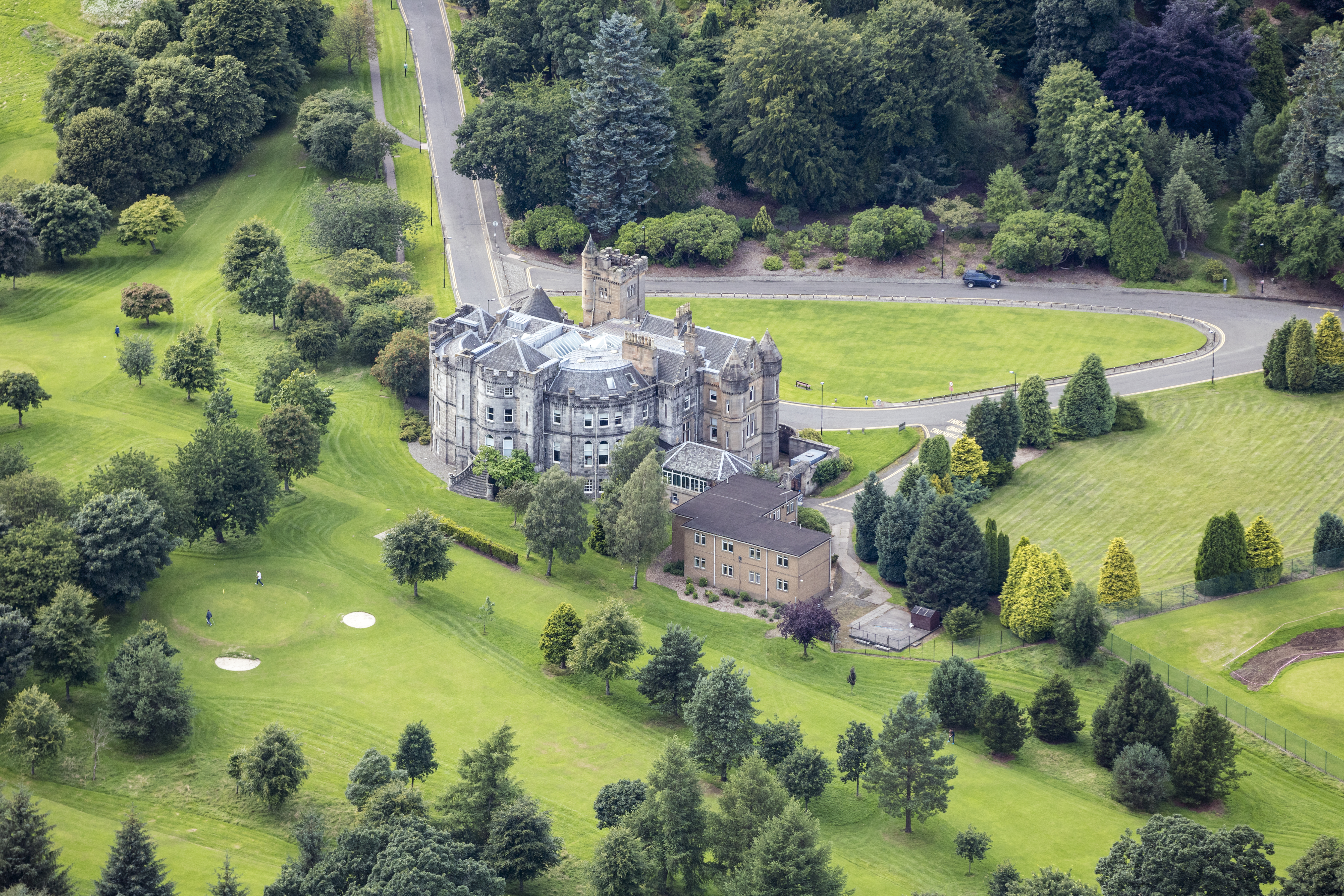 Aerial view of Airthrey Castle, on the University of Stirling campus, Central Scotland Wikidata has entry Q4699043 with data related to this item.